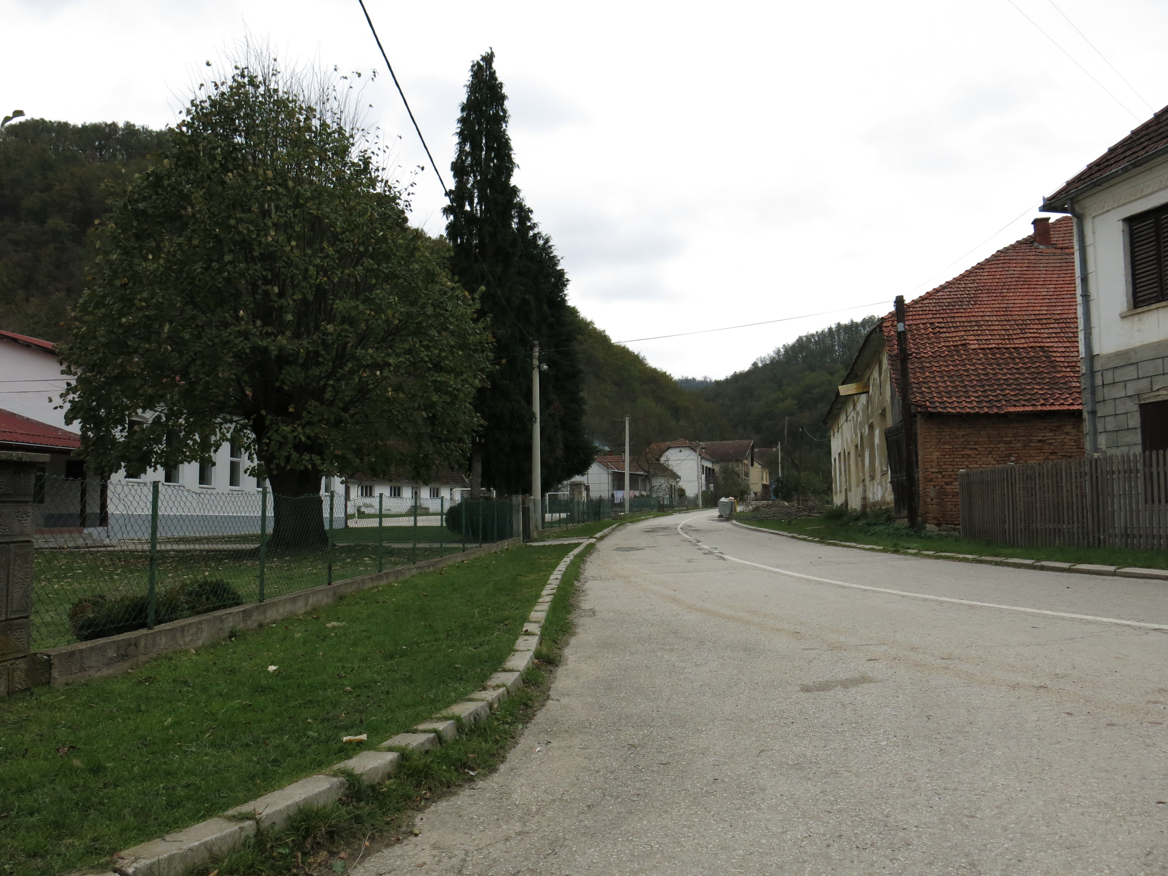 Gornji Banjani, Street